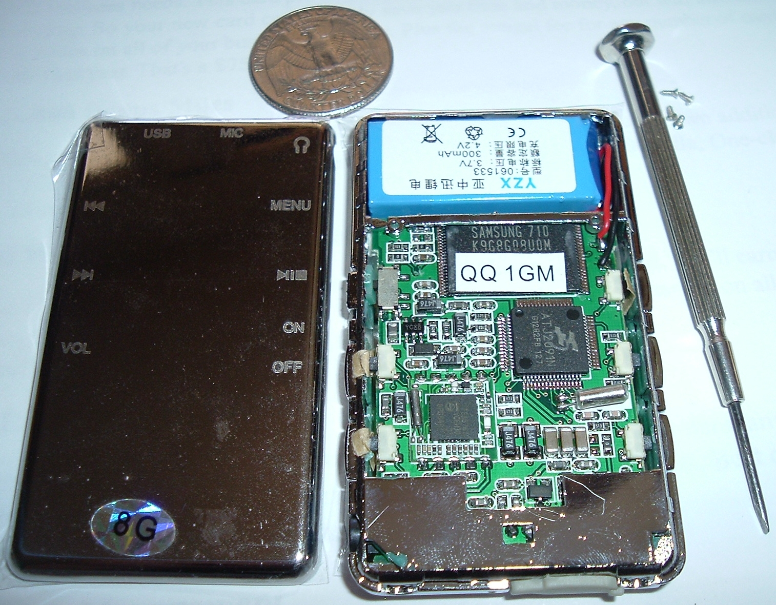 Chinese MP4/MTV Player